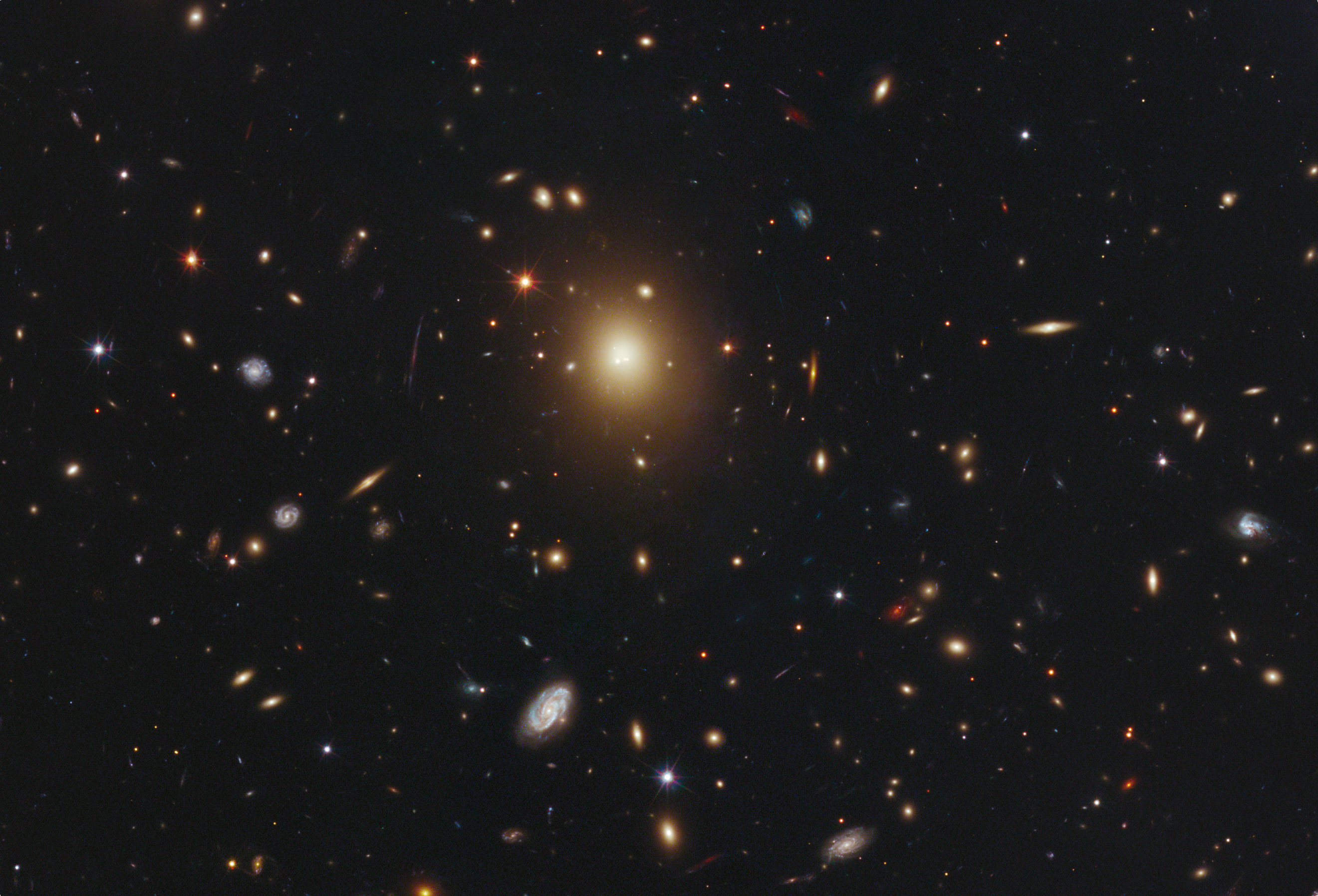 The giant elliptical galaxy in the centre of this image, taken by the NASA/ESA Hubble Space Telescope, is the most massive and brightest member of the galaxy cluster Abell 2261. Spanning a little over one million light-years, the galaxy is about 20 times the diameter of our Milky Way galaxy. The bloated galaxy is a member of an unusual class of galaxies with a diffuse core filled with a fog of starlight. Normally, astronomers would expect to see a concentrated peak of light around a central black hole. The Hubble observations revealed that the galaxy's puffy core, measuring about 10 000 light-years, is the largest yet seen. The observations present a mystery, and studies of this galaxy may provide insight into how black hole behavior may shape the cores of galaxies. Astronomers used Hubble's Advanced Camera for Surveys and Wide Field Camera 3 to measure the amount of starlight across the galaxy, catalogued as 2MASX J17222717+3207571 but more commonly called A2261-BCG (short for Abell 2261 brightest cluster galaxy). Abell 2261 is located three billion light-years away. The observations were taken between March and May 2011. The Abell 2261 cluster is part of a multi-wavelength survey called the Cluster Lensing And Supernova survey with Hubble (CLASH).